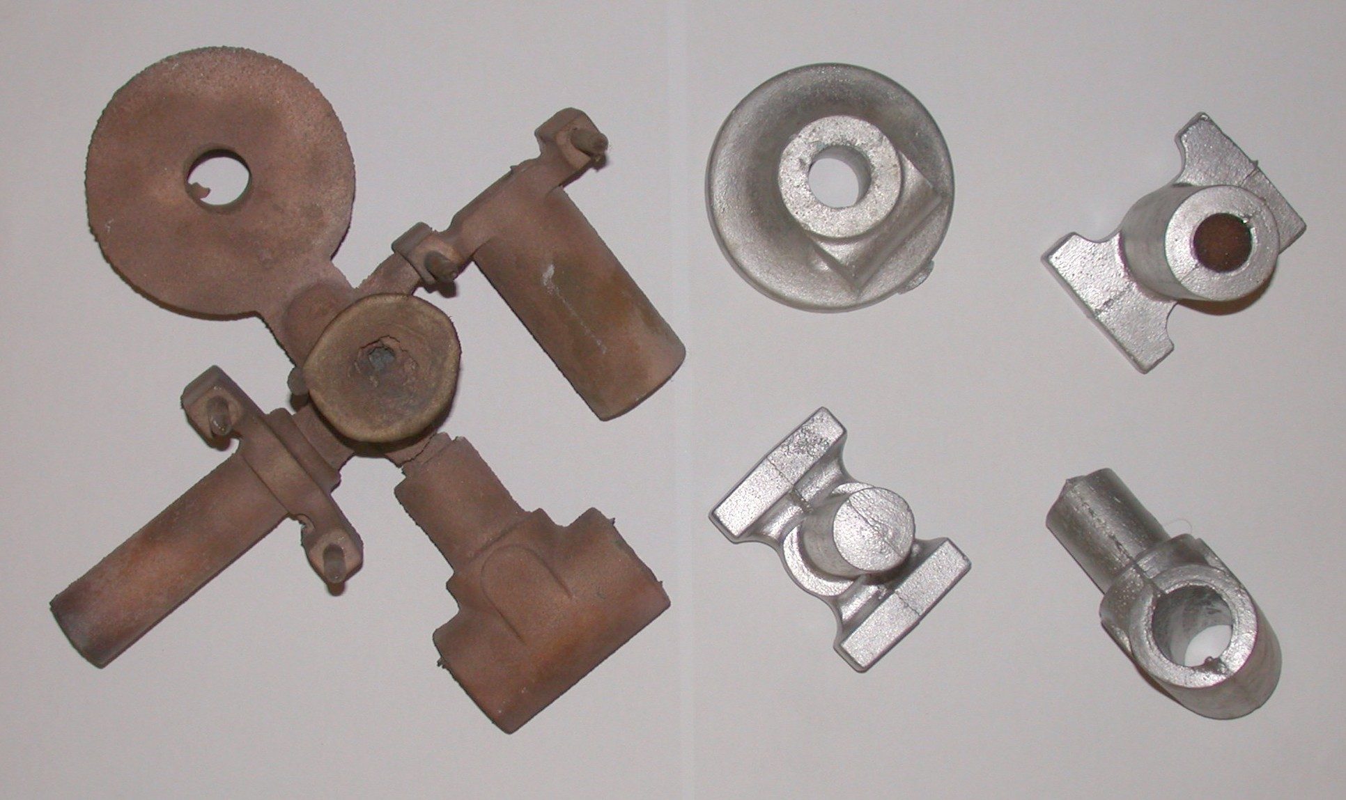 Two sets of castings (bronze and aluminium) from the sand mold: File:SandMoldCopeDragCores.jpg